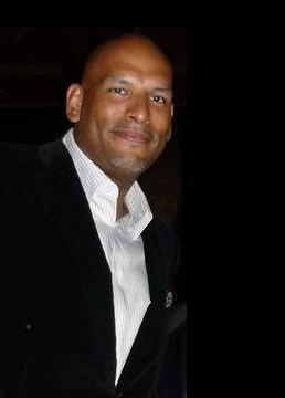 Retired NBA basketball player John Ameichi.